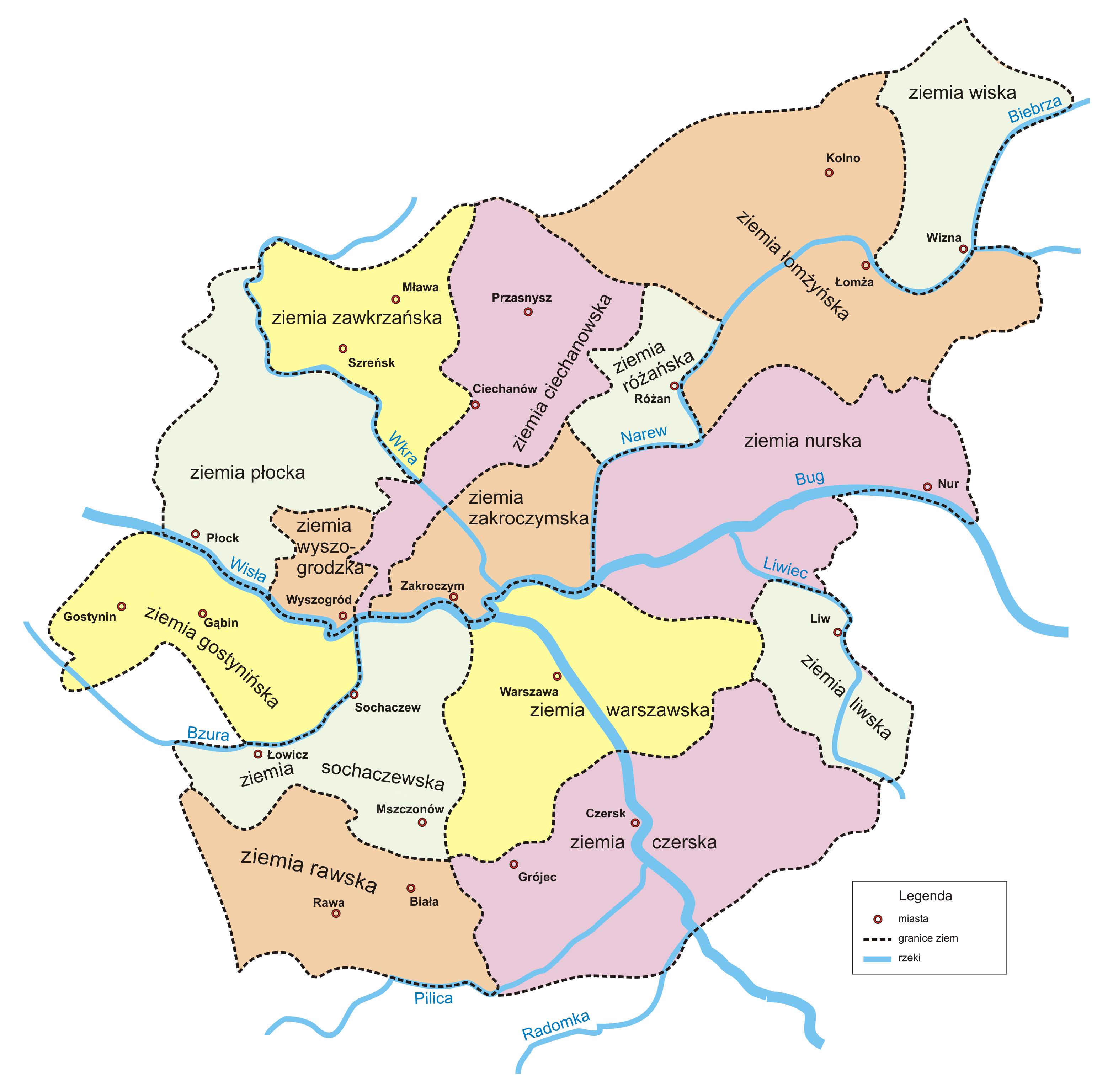 Historical division of Mazovia (13th-18th century)